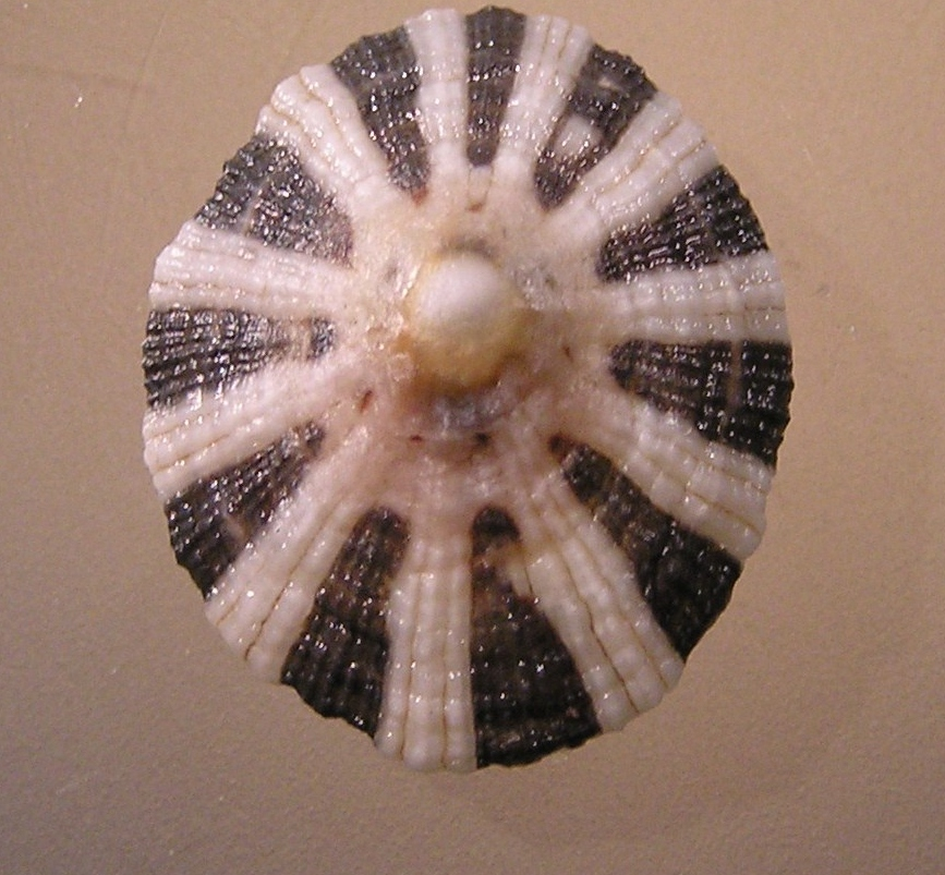 Cellana conciliata Iredale, 1940, a limpet from the family Nacellidae; South Taiwan